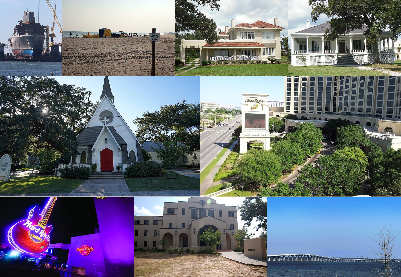 Clockwise from top: Ingalls Shipbuilding (Pascagoula), Biloxi Beach, Dantzler House (Gulfport), Beauvoir (Biloxi), Beau Rivage Casino (Biloxi), Bay Saint Louis Bridge, USM Gulf Coast Campus (Long Beach), Hard Rock Casino (Biloxi), Saint John's Epispocal Church (Ocean Springs)